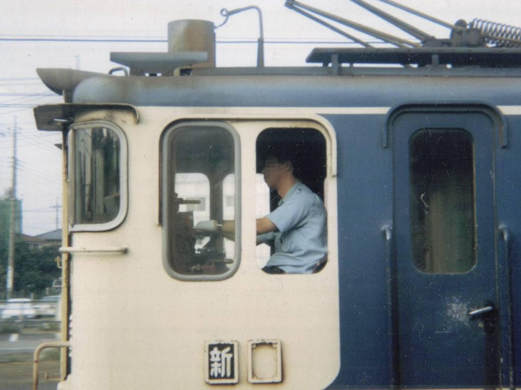 Motorman at Tohoku Line.